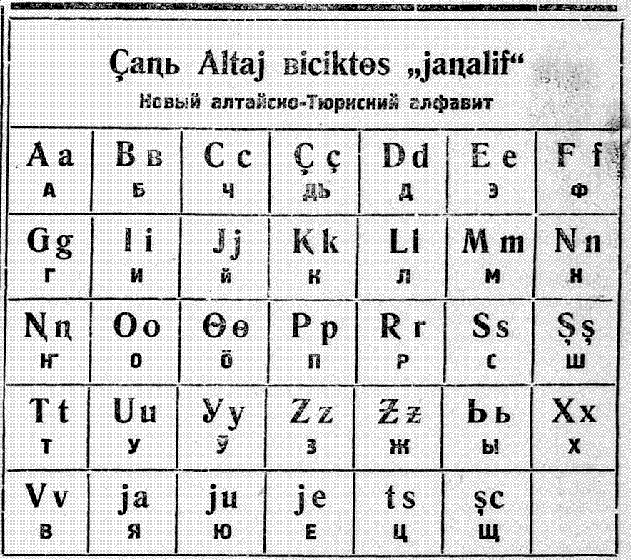 Altai latin alphabet (1929-1938)